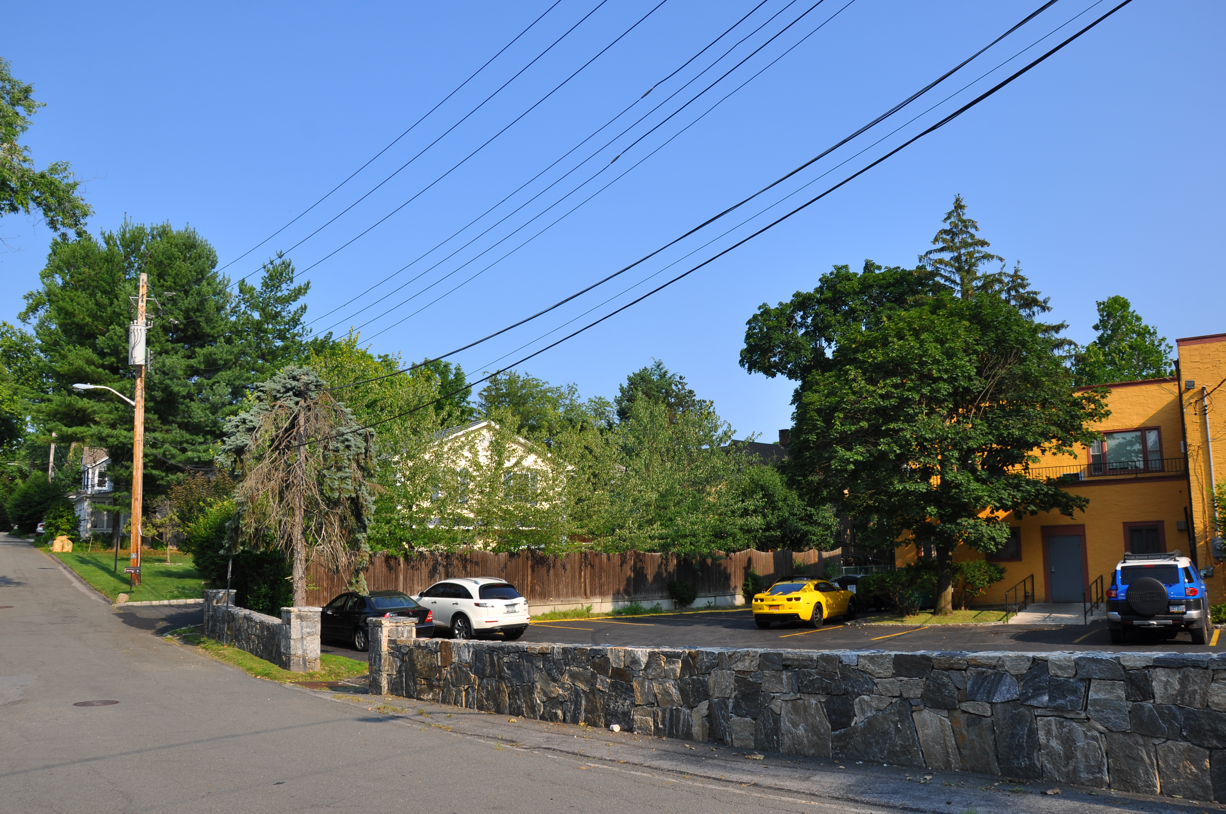 Archville, New York on June 12, 2014.